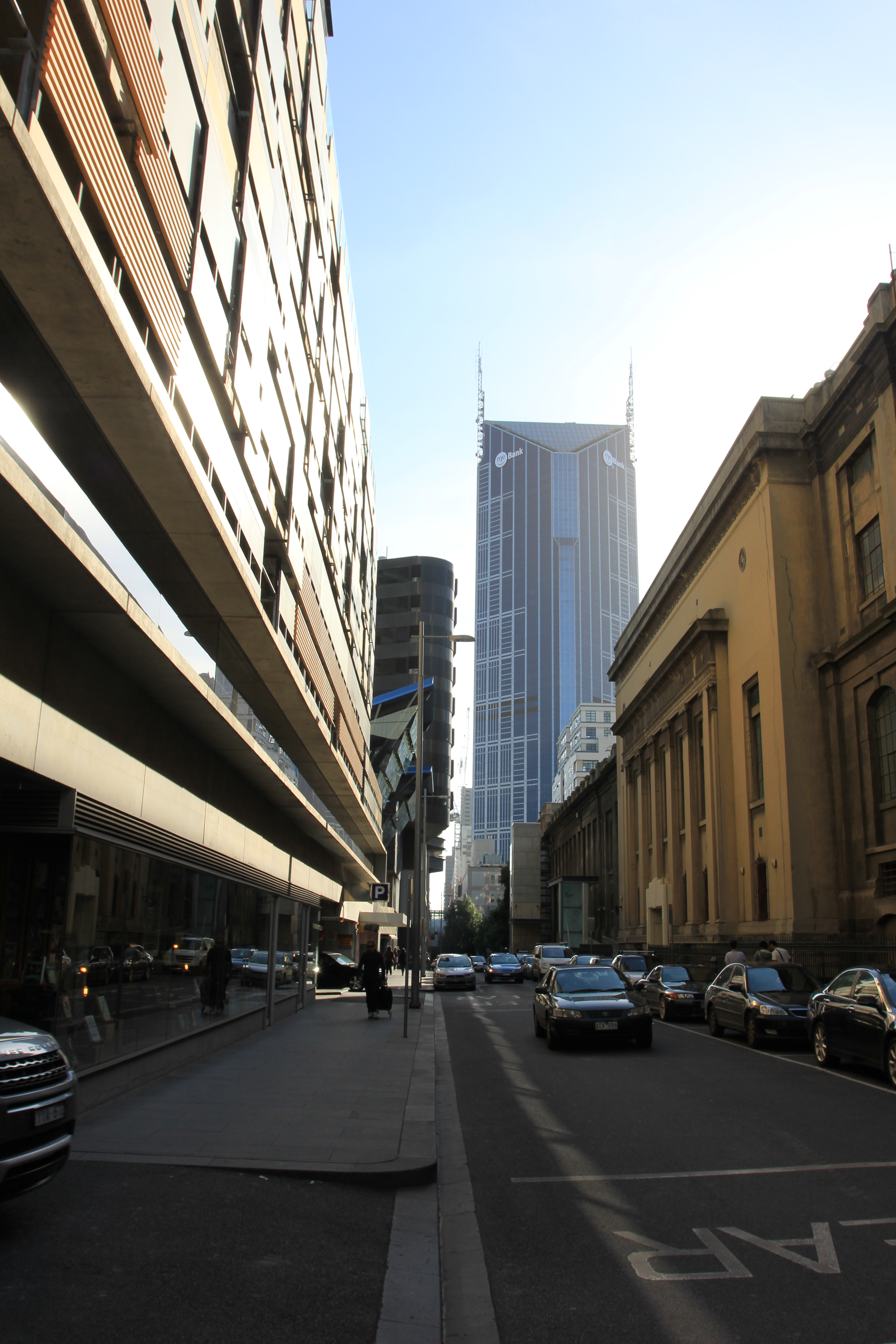 Little Londsdale Street, Melbourne Australia. Near Swanston St.